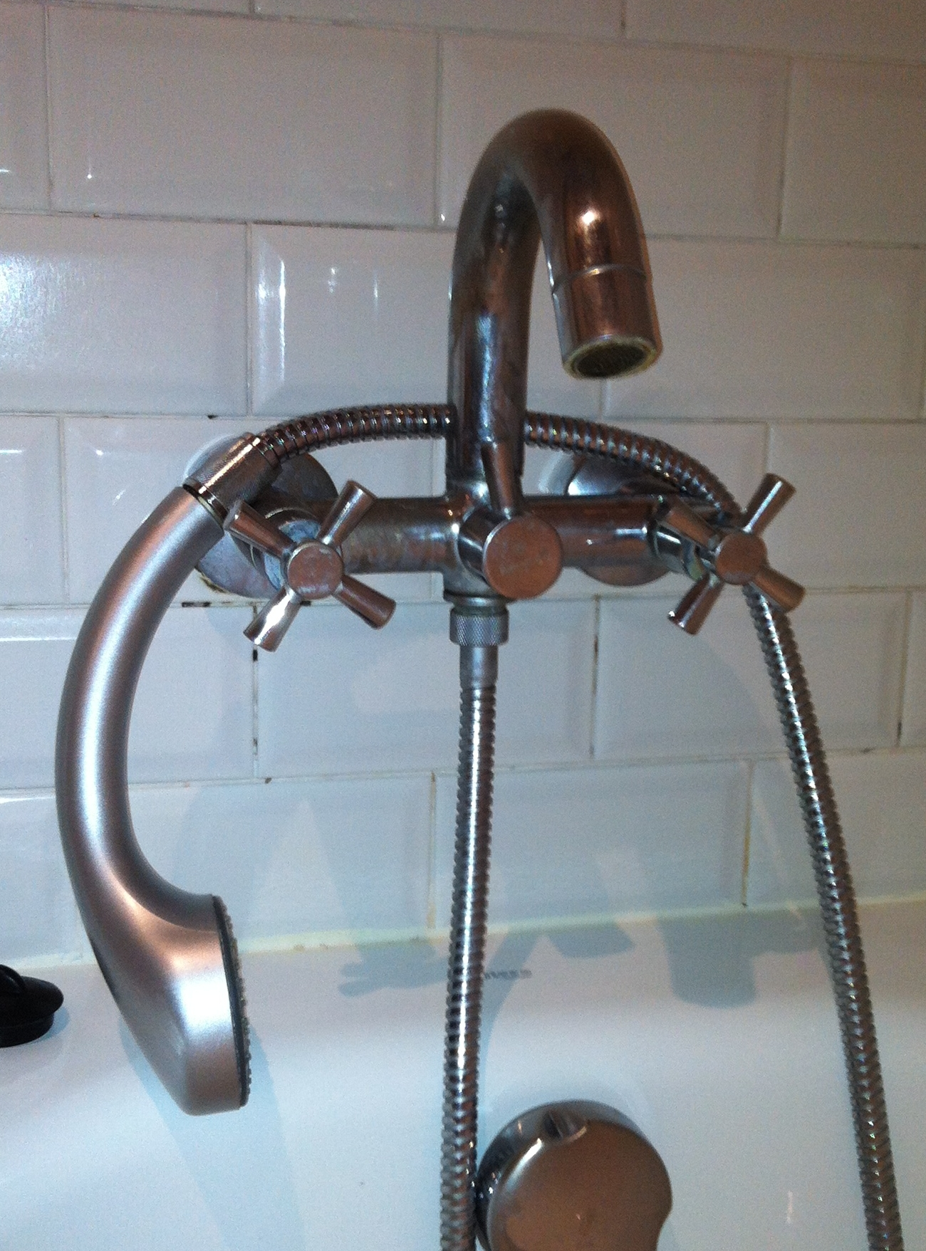 Spanish shower. Left and right controls for hot and cold water. Middle to direct flow to shower or tap.